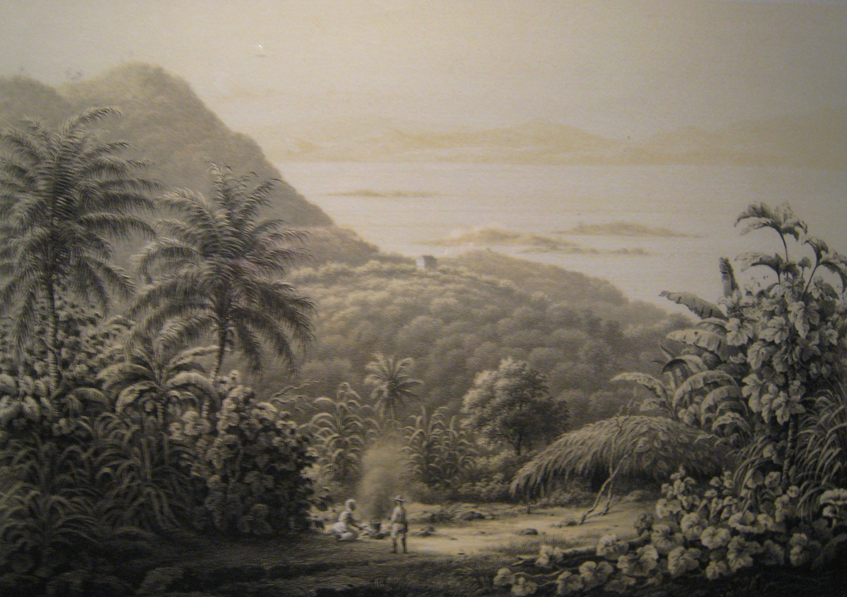 St. Jan island — in the Danish West Indies. Lithograph from a drawing by Fritz Melbye, c. 1850. Present day St. John island in the United States Virgin Islands.